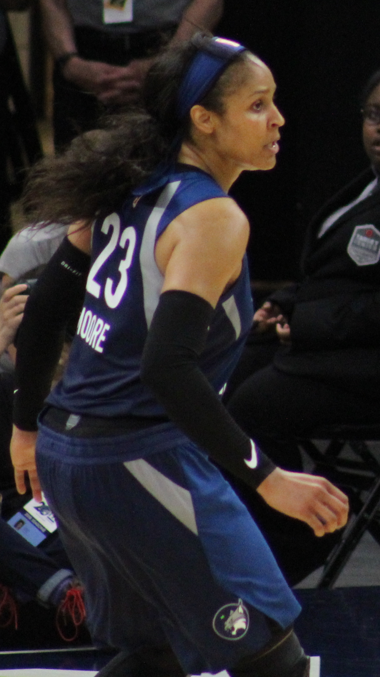 Maya Moore of the Minnesota Lynx in 2018